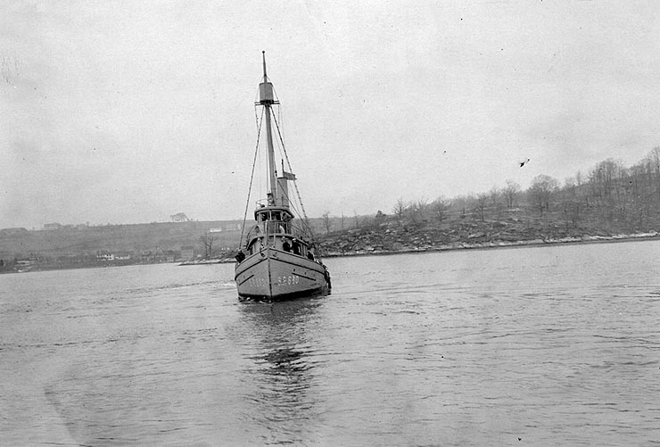 The United States Navy patrol vessel and minesweeper off Submarine Base New London, Groton, Connecticut.